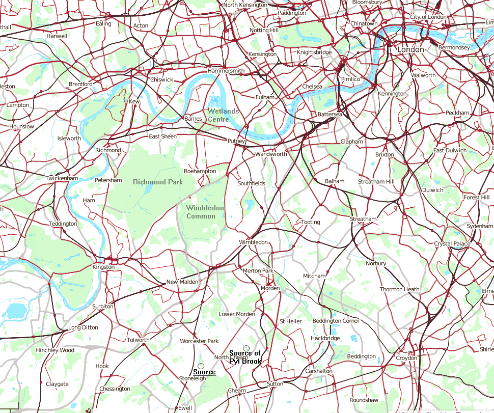 Beverley Brook and Pyl Brook, London using Open Street Map